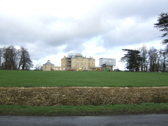 Roof repairs at Buckland House, Oxfordshire (formerly Berkshire)